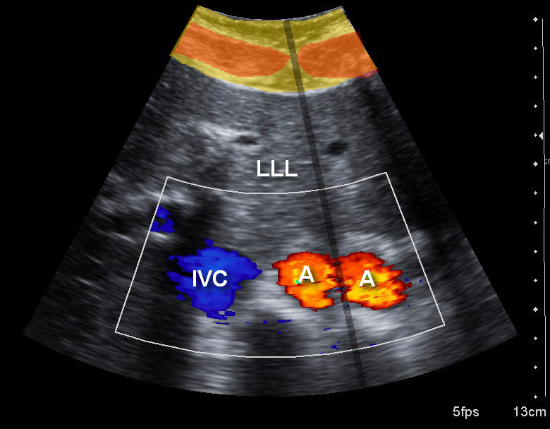 Ultrasound images of aorta duplication artifact. A refraction artifact which results from the difference in the velocity of sound between muscle tissue and fat tissues.